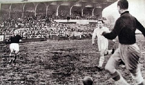 AS Saint-Etienne - Olympique de Marseille (1-0, 6th november 1938). French football league 1938-39. First match between two teams.